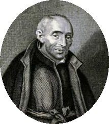 Vincenzo Caraffa, S.J., 1585-1649